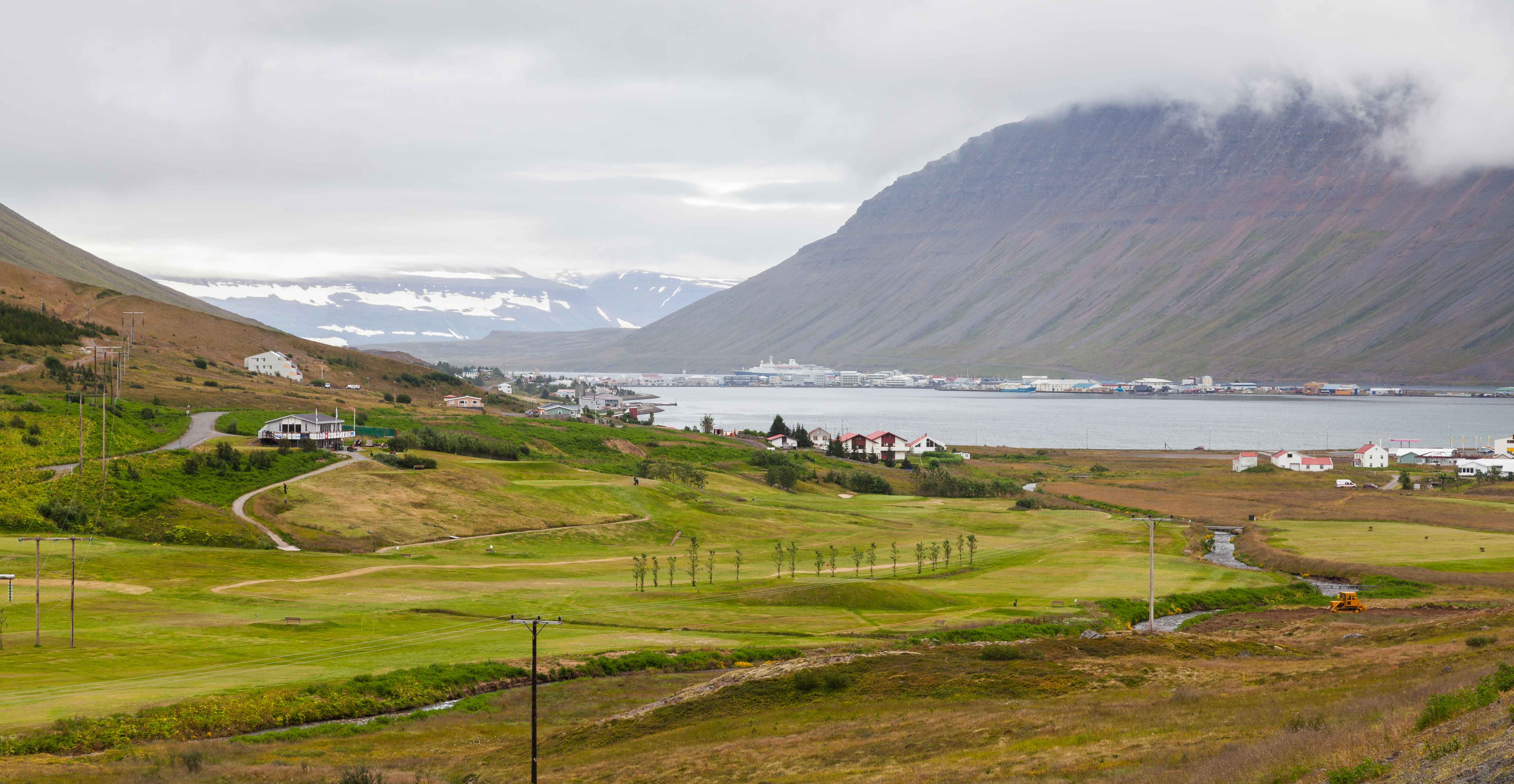 Ísafjörður, Vestfirðir, Iceland